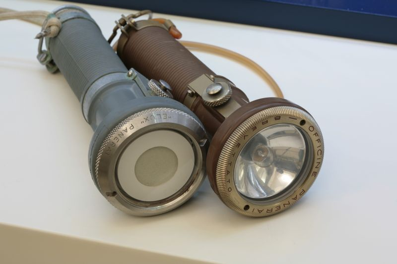 This work is free and may be used by anyone for any purpose. If you wish to use this content, you do not need to request permission as long as you follow any licensing requirements mentioned on this page.